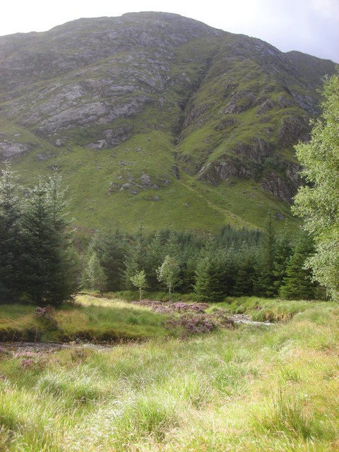 View up Carn na Nathrach from the Hurich glen